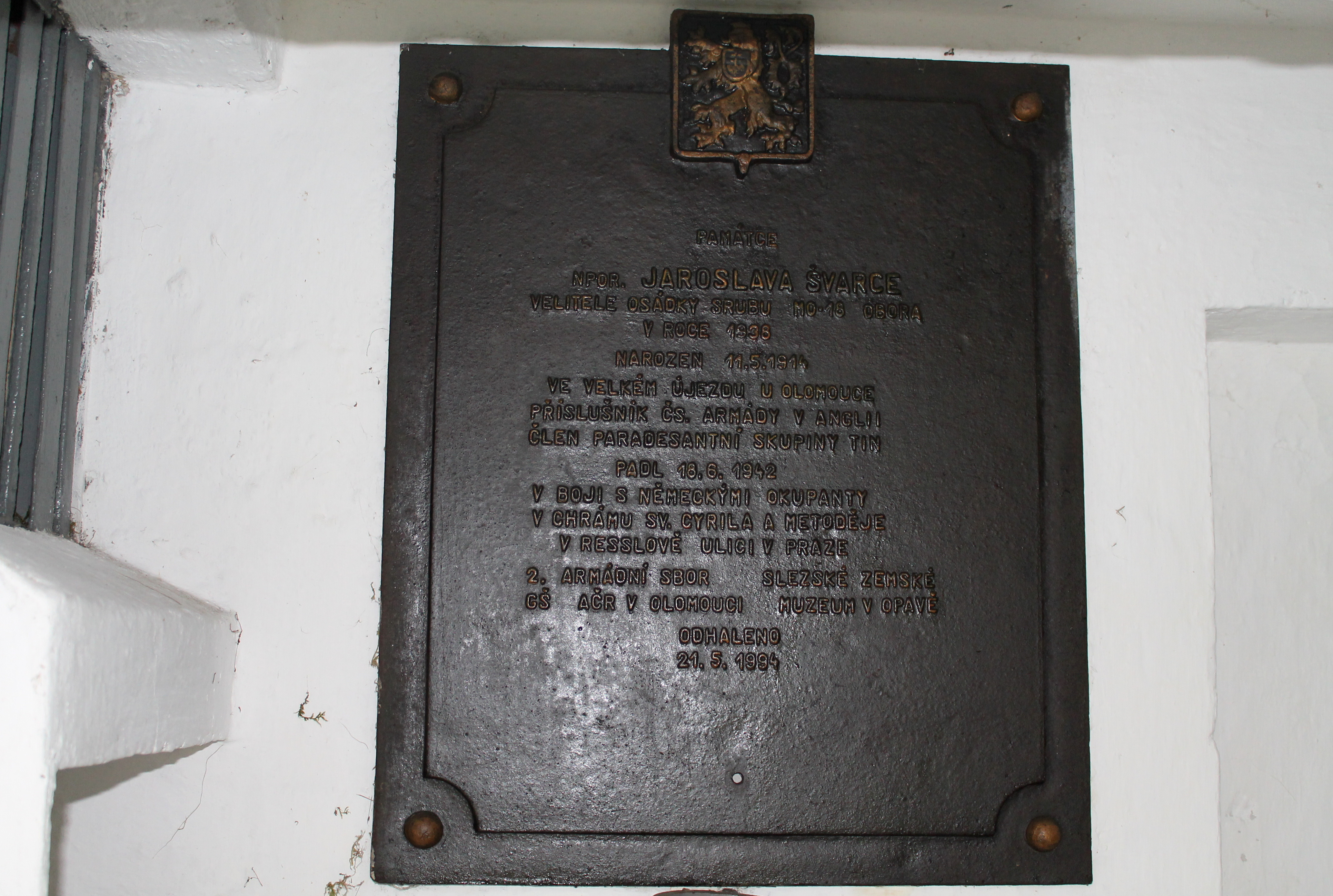 MO-S 18 V oboře infantry casemate, Šilheřovice, Opava District